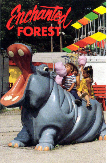 Postcard of Enchanted Forest amusement park located in Chesterton, Porter County, Indiana.